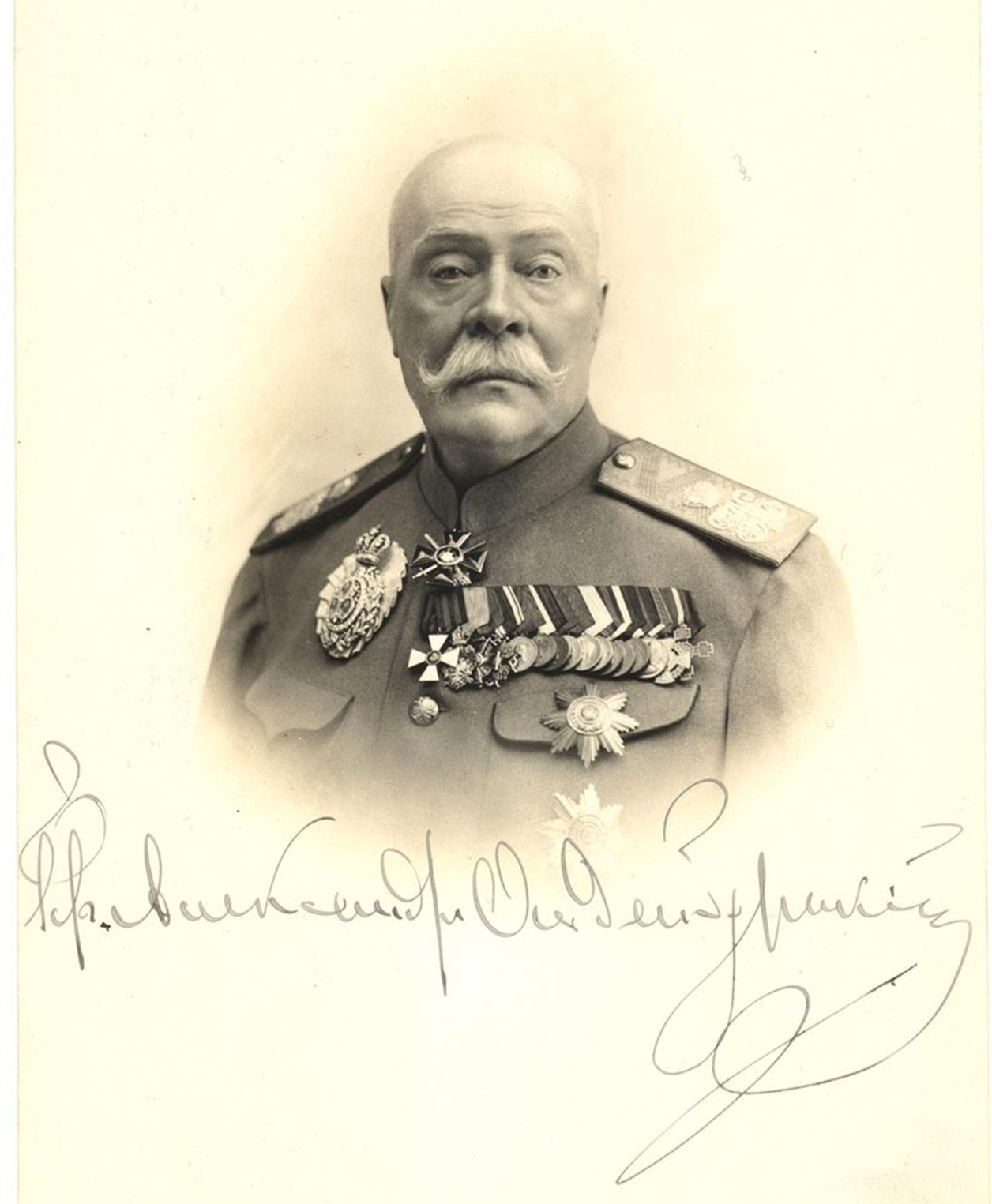 Duke Alexander Petrovich of Oldenburg